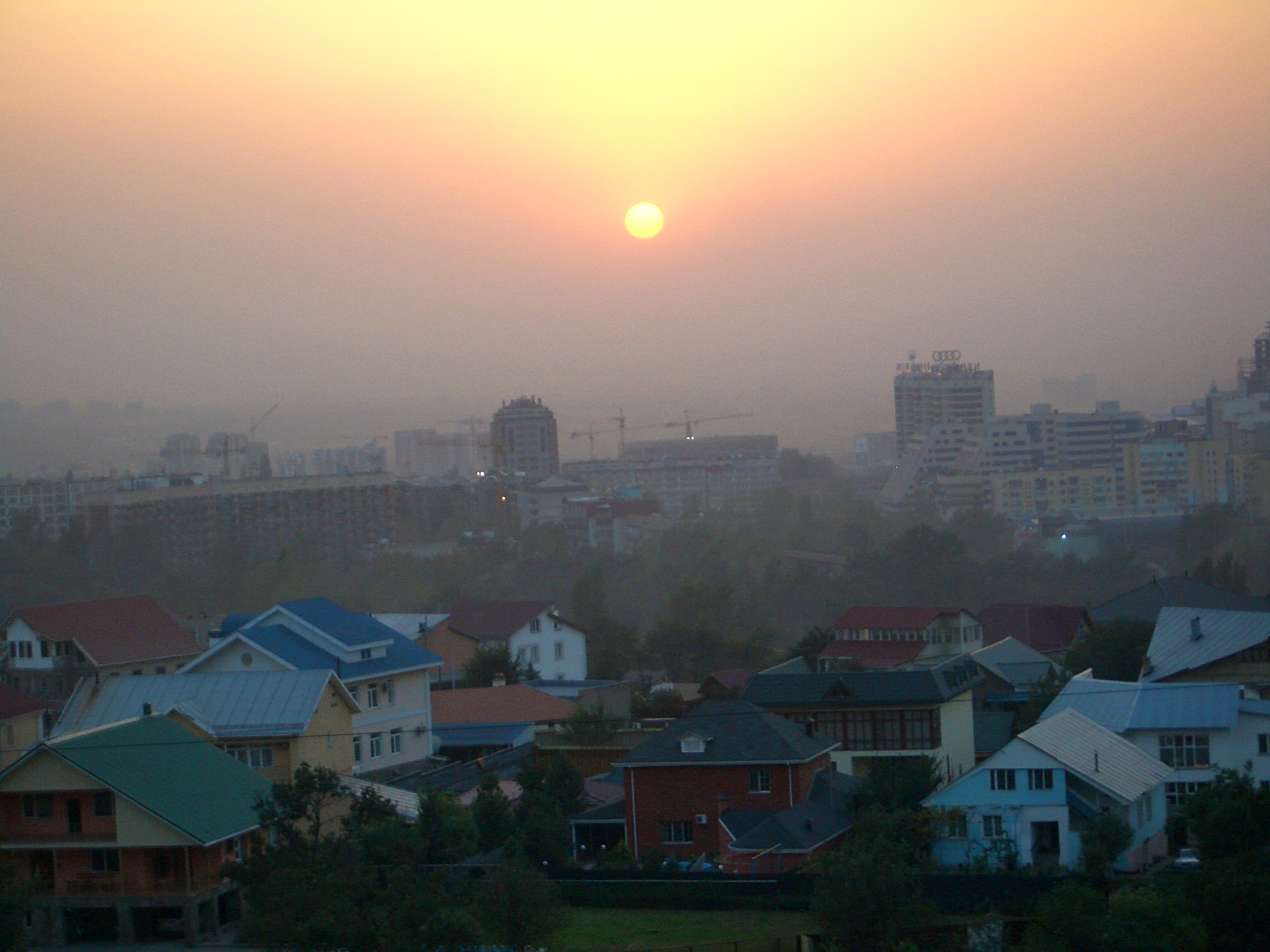 A smoggy sunnset over Almaty, seen from Kok Tobe